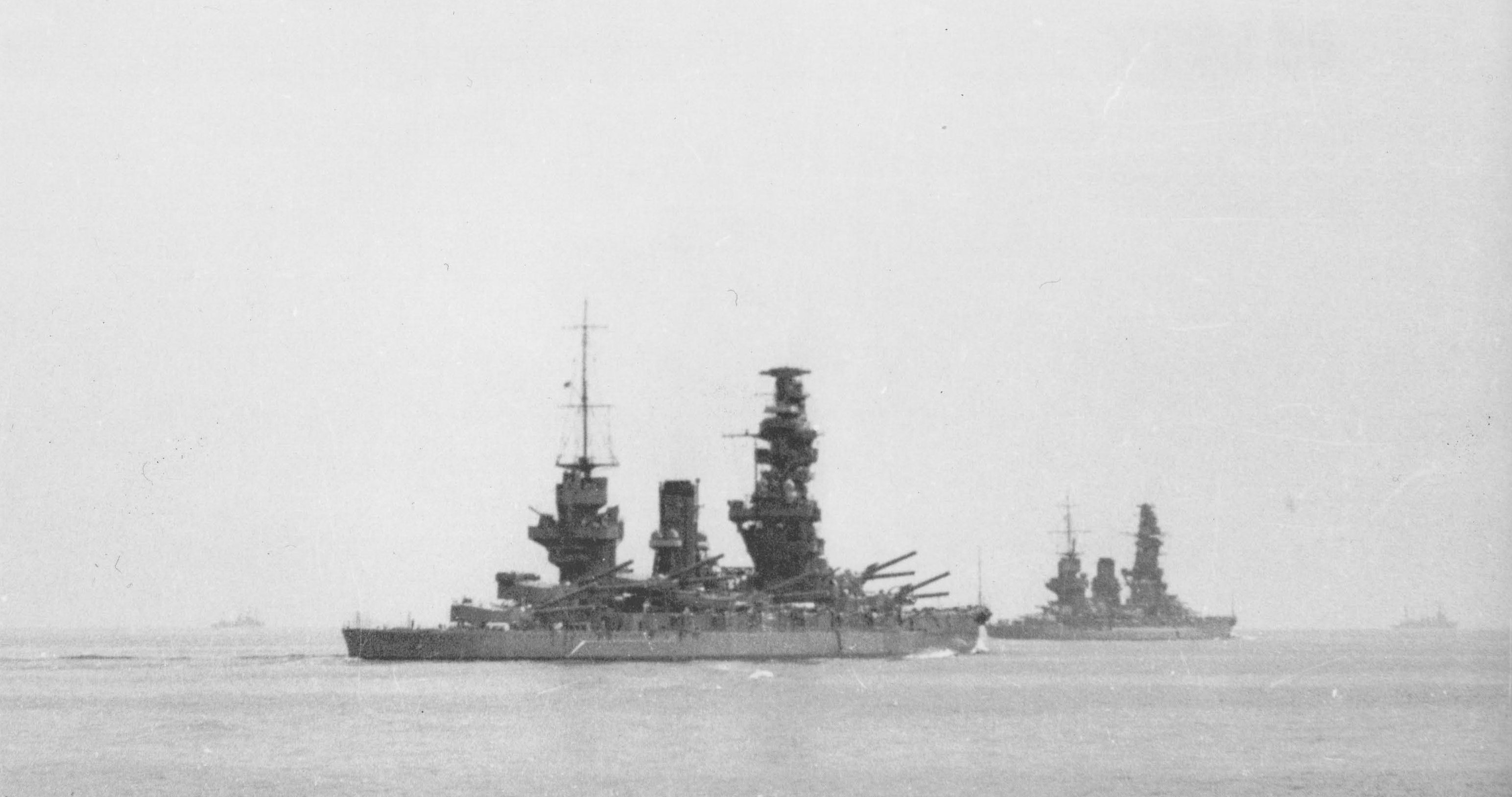 Imperial Japanese Navy battleships Fusō (foreground) and Yamashiro (background) maneuver together off Aburaiyawan, Japan.